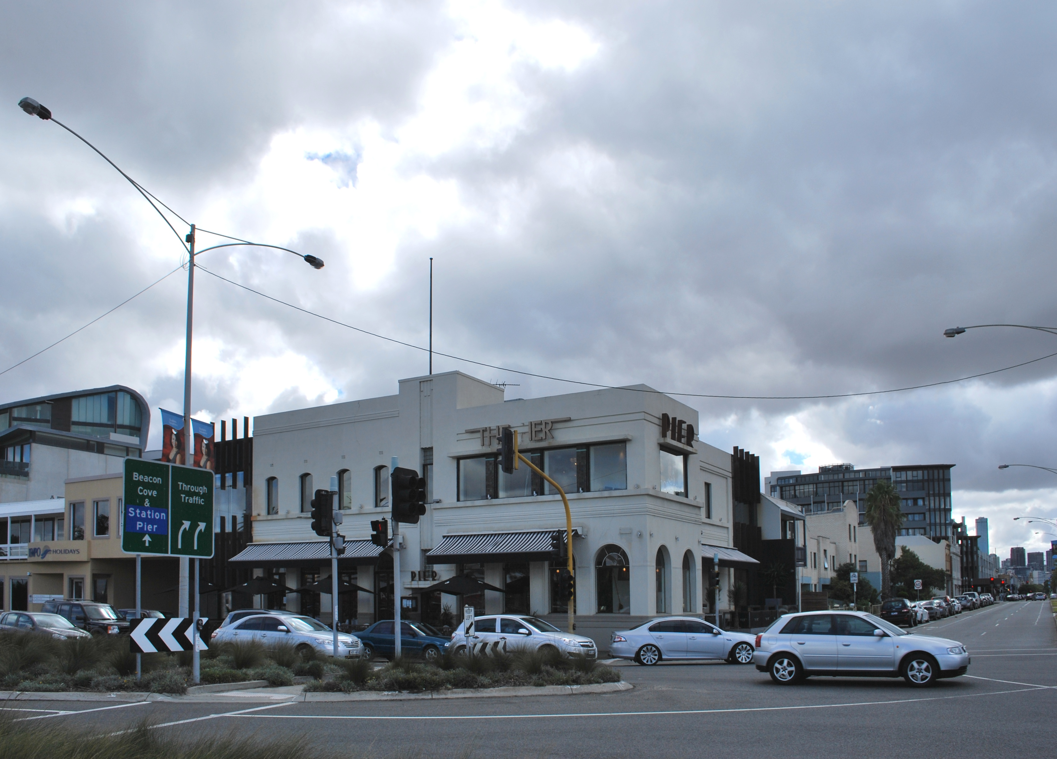 Pier Hotel at Port Melbourne, Victoria